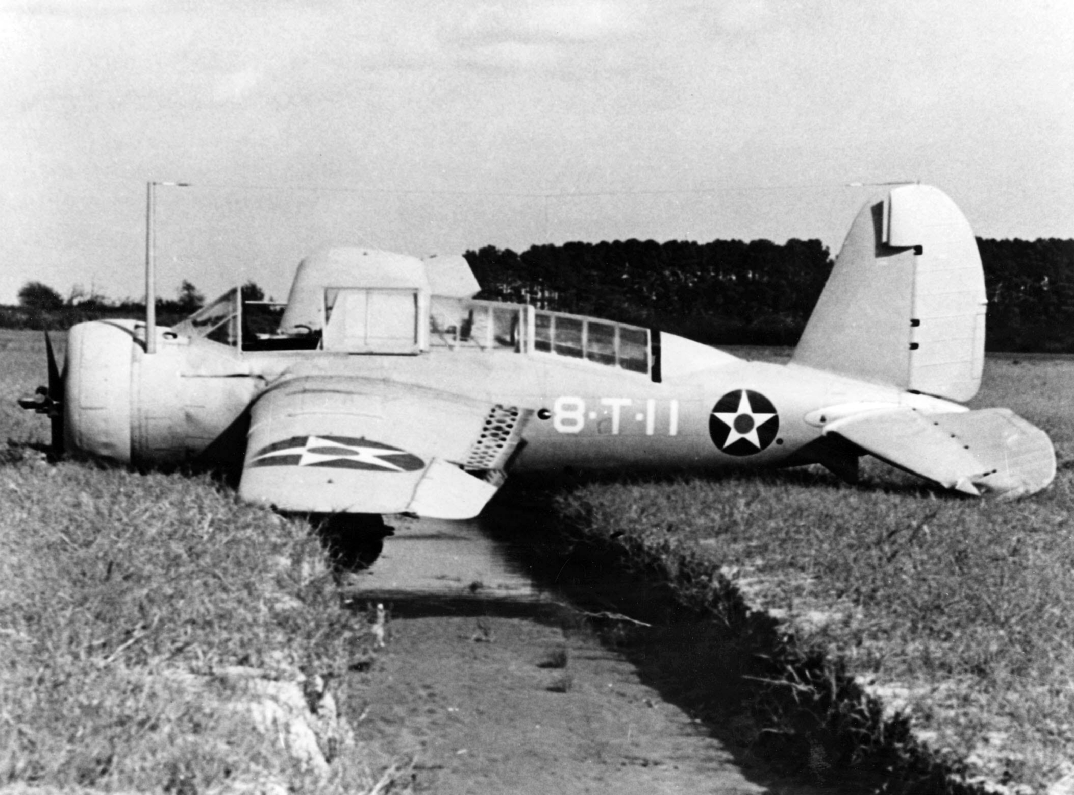 A U.S. Navy Naval Aircraft Factory SBN-1 assigned to Torpedo Squadron Eight (VT-8) pictured after forced landing at Naval Air Station Hampton Roads, Virginia (USA). This specific aircraft was delivered to VT-8 in early-September 1941. Following this accident, it underwent a period of overhaul and repair and was returned to squadron service on 18 November 1941.